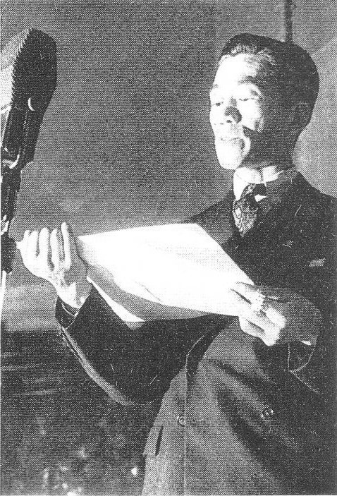 Sadao Maruyama (Japanese Actor. He died due to Atomic bombings of Hiroshima in August 6, 1945)